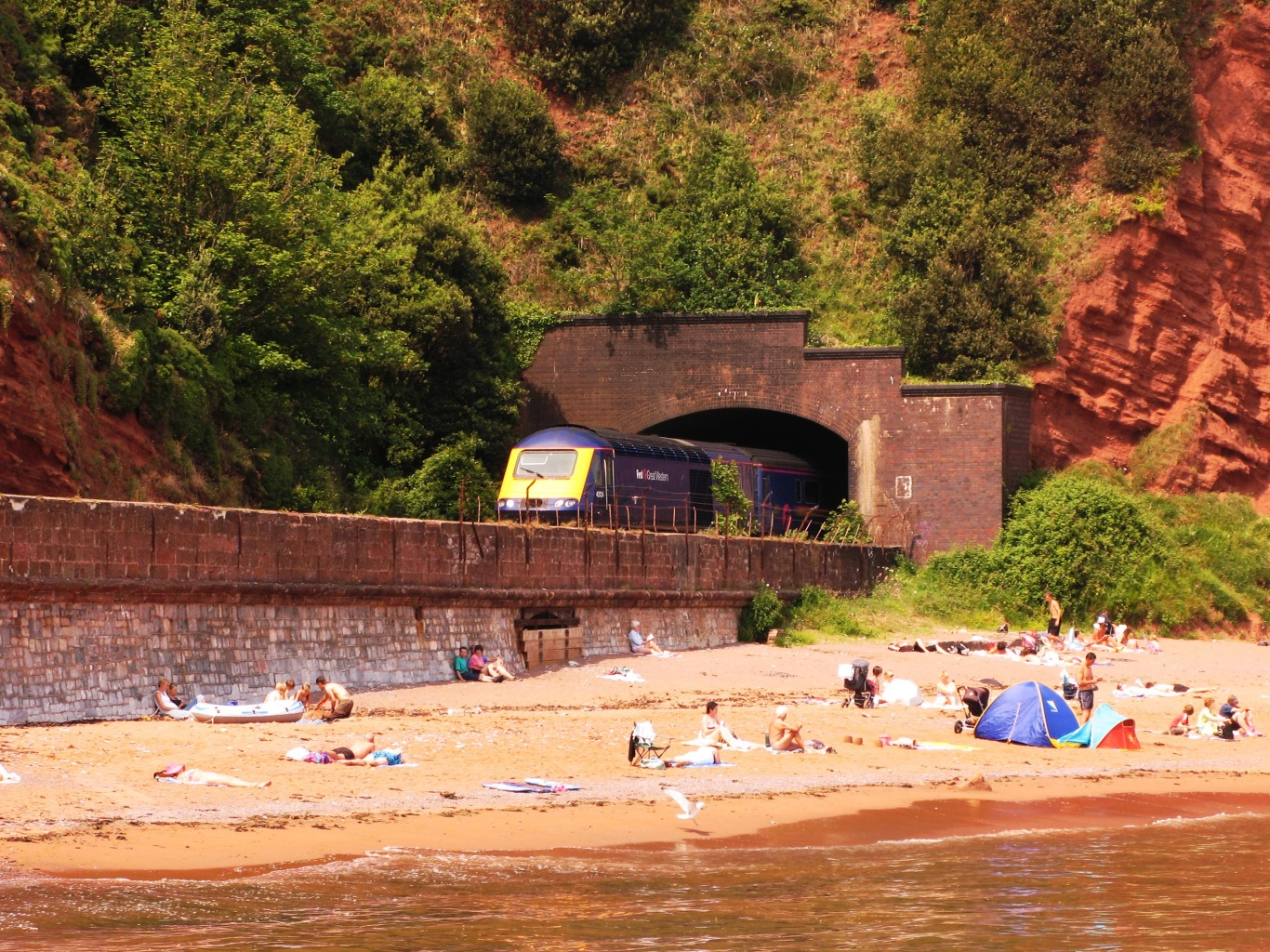 A First Great Western High Speed Train leaving Kennaway Tunnel at Coryton Cove, dawlish, devon, England.